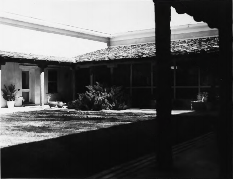 Sierra Bonita Ranch, enclosed courtyard of the original house (looking NE). 3/18/75 A.Guhl #5